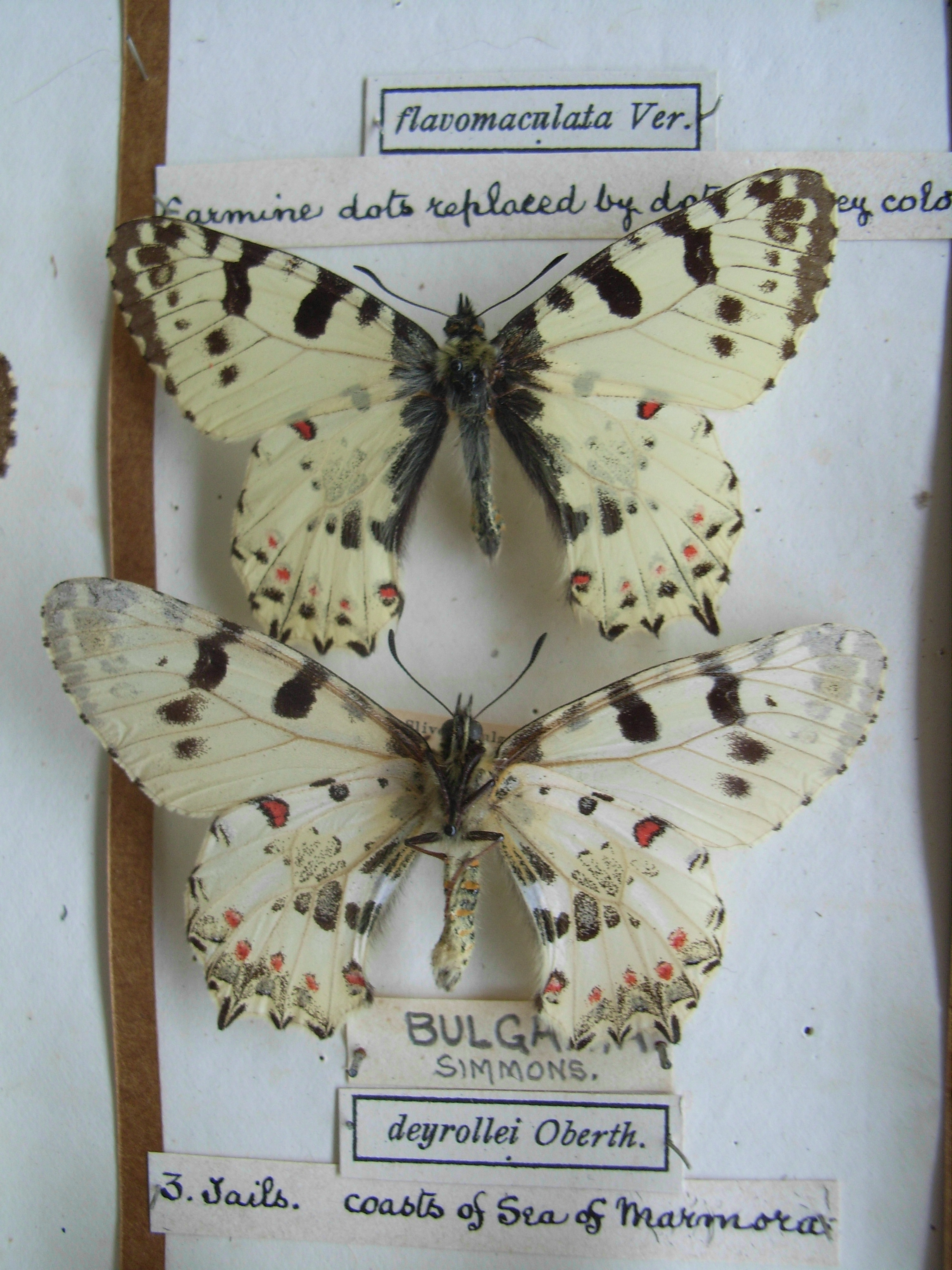 Allancastria sp.flavomaculata Verity 1905 = A. c. ferdinandi Stichel, 1907